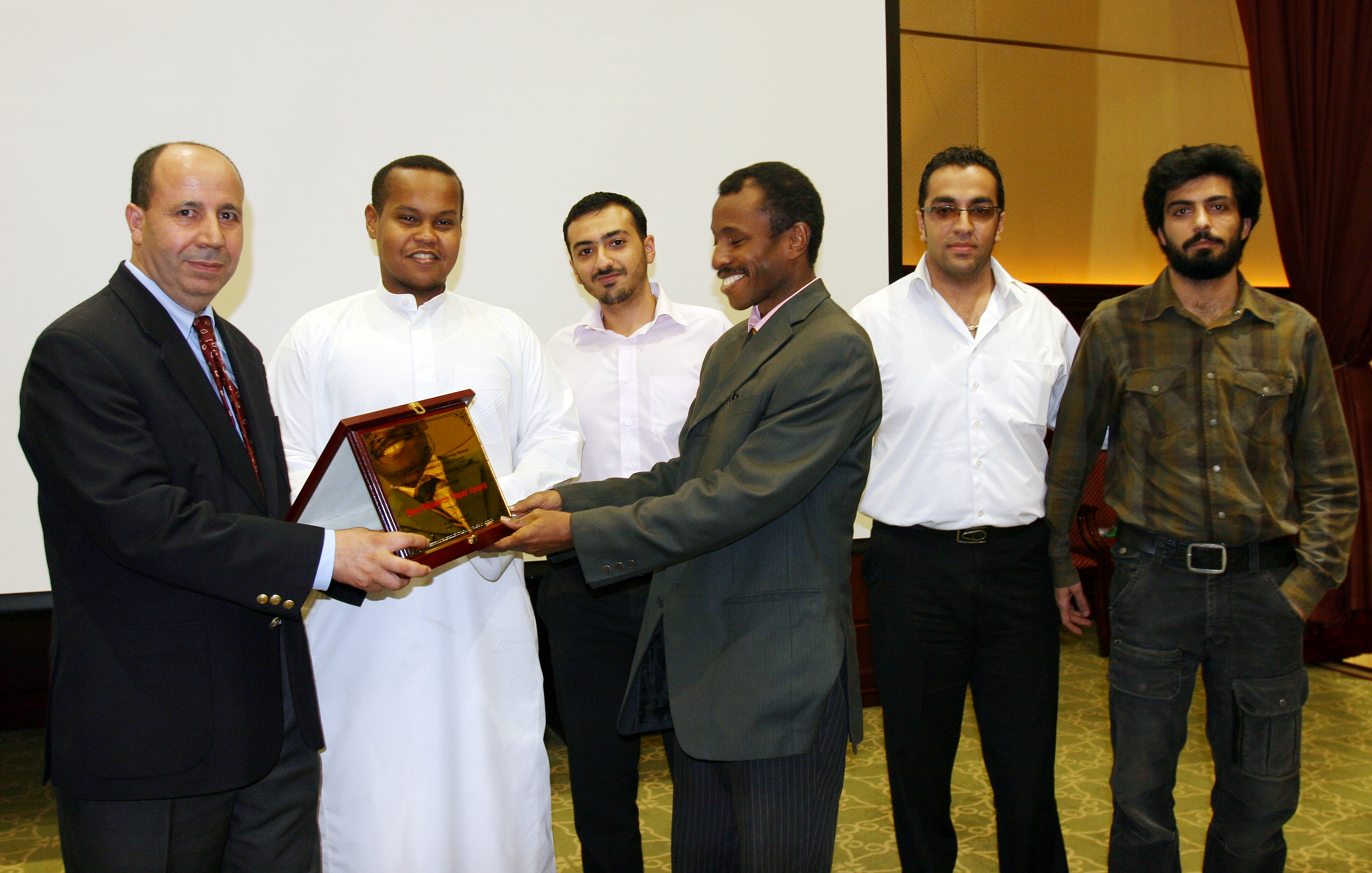 Best Research Paper in Faculty of Engineering , The Fifth Approach Student Scientific Conference .2009